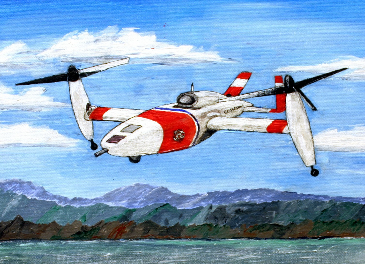 Eagle Eye (unmanned aerial vehicle) - painting